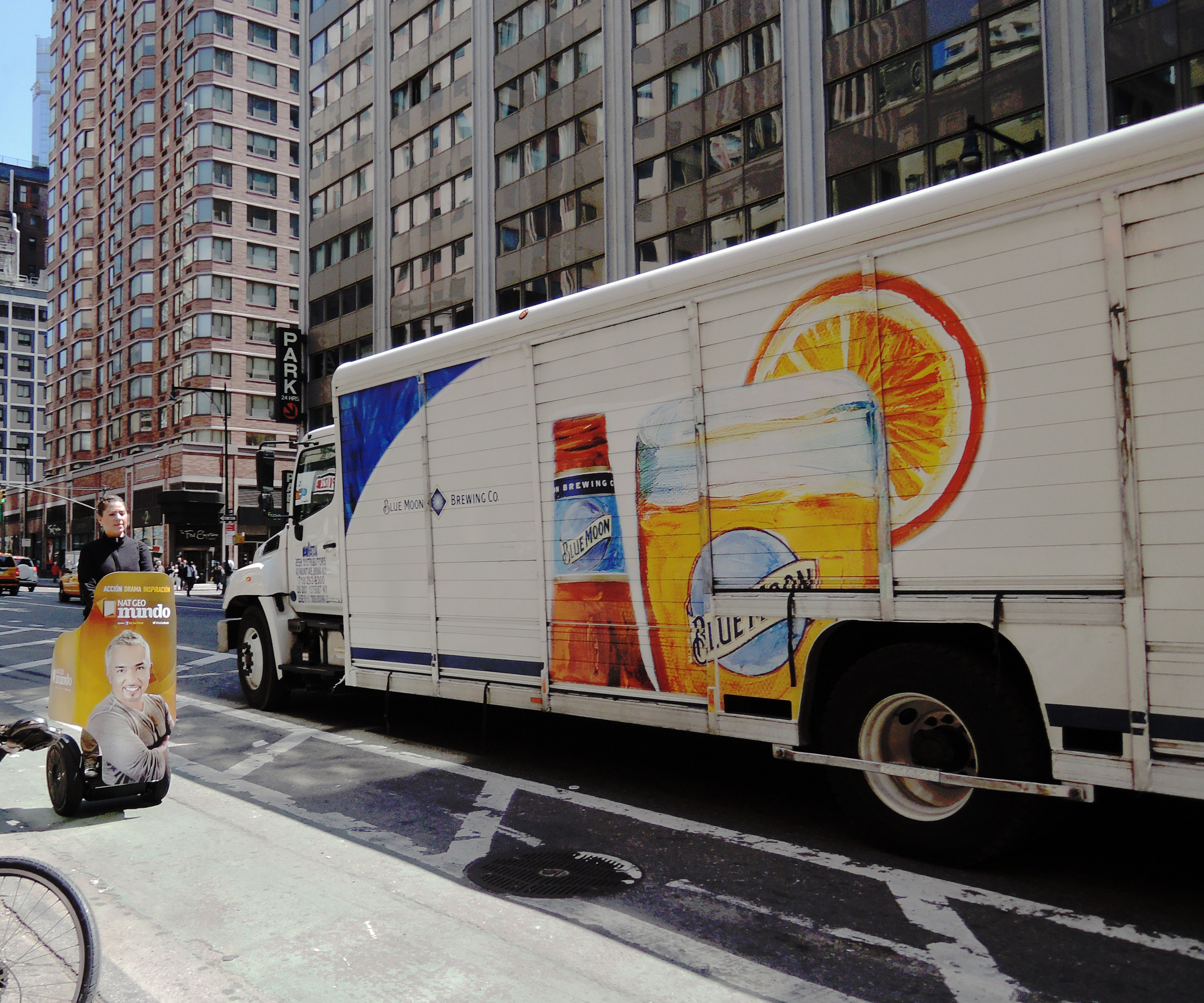 Looking northeast as Segway passes a beer truck.